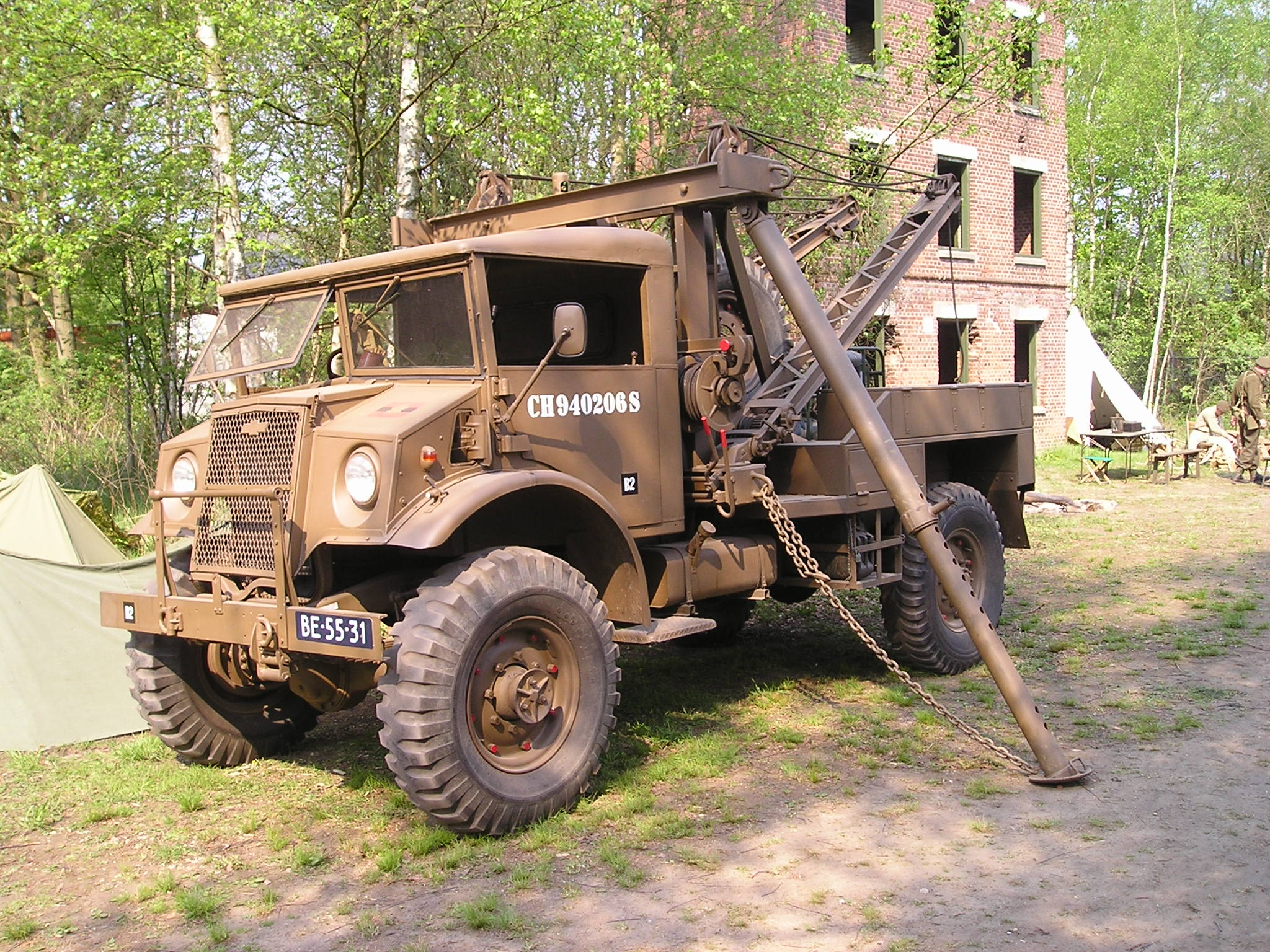 Chevrolet CMP wrecker as seen on Bridgehead (Bussum, Netherlands). Number 13 type cab